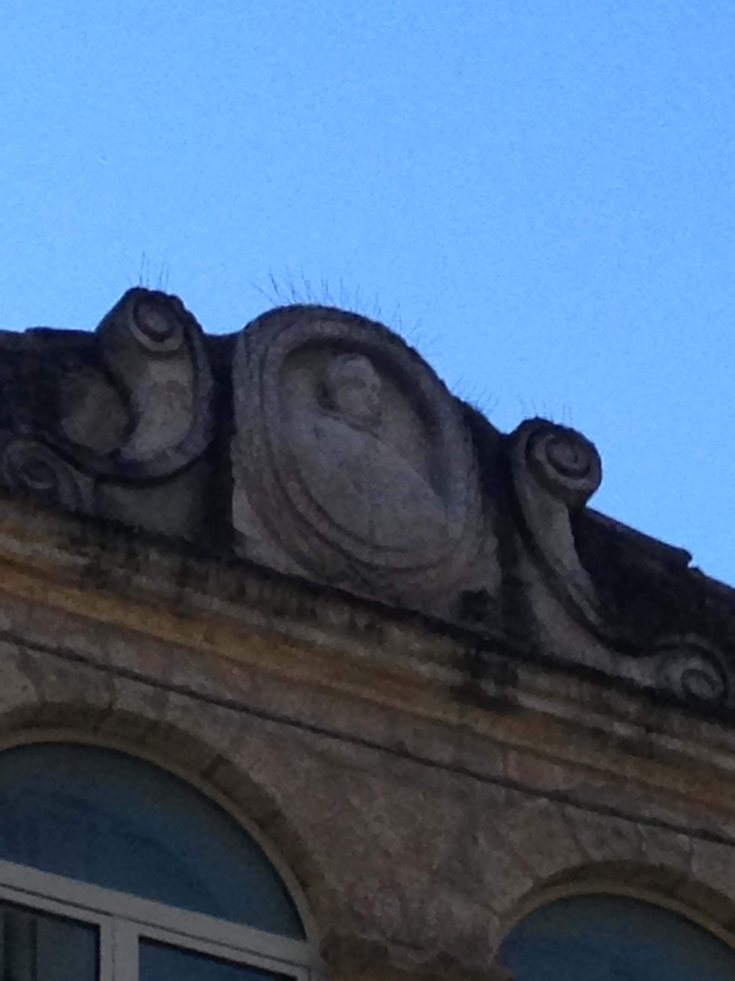 Sculpture depicting Pietro Magri, Altamura